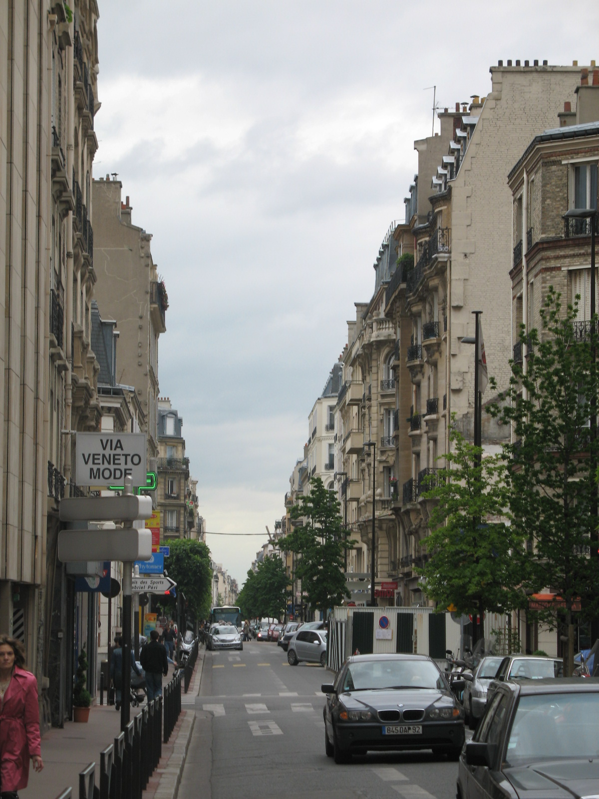 Typical street in Levallois. (Author: Metropolitan)